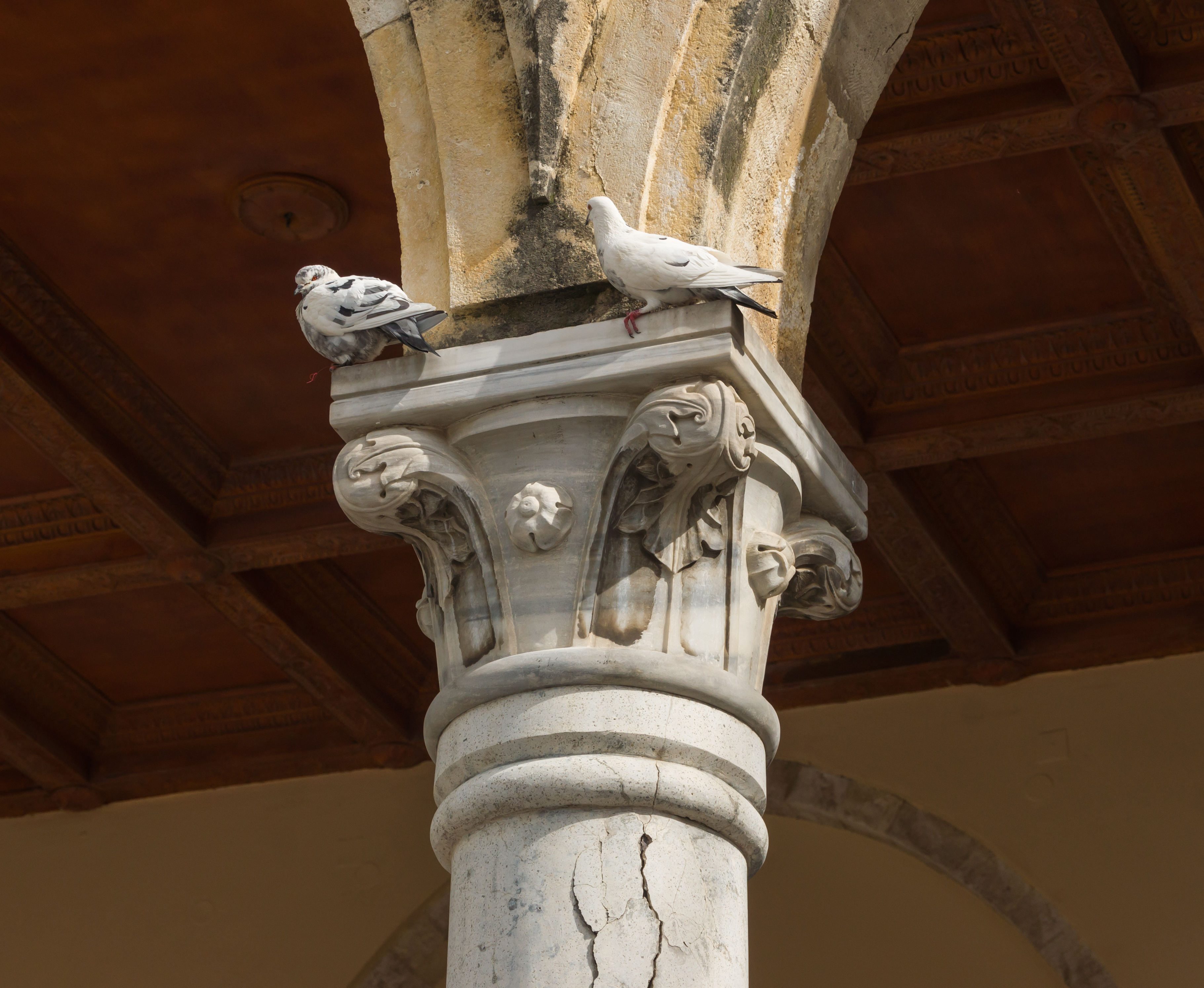 A capital with pigeons at Agios Marcos basilica (Museum of Visual Arts) of Heraklion, Crete, Greece.